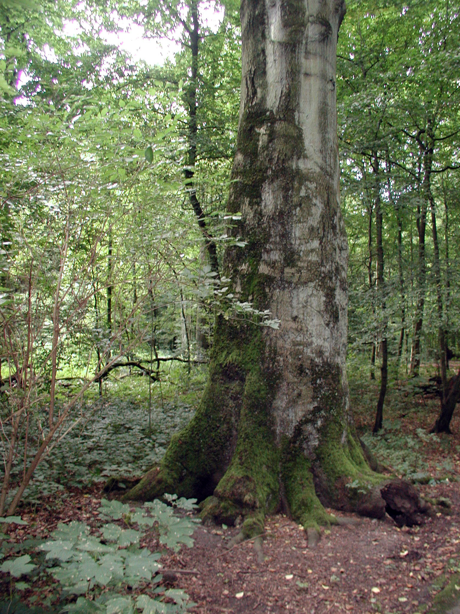 Cologne, forest "Gremberger Wäldchen"